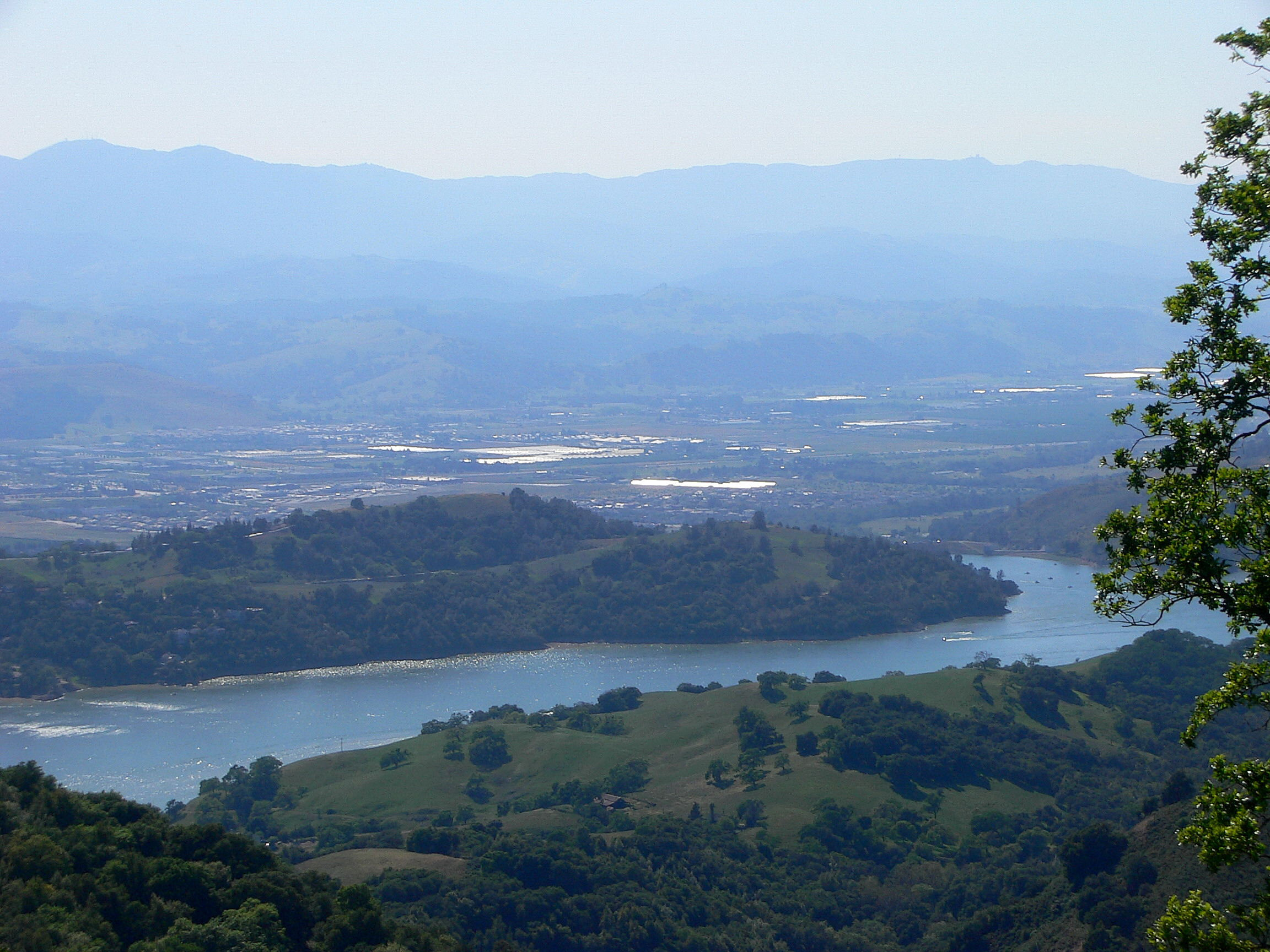 Anderson Lake, a man-made reservoir, Santa Clara County, California in foreground. Looking west across Santa Clara Valley. The peak of Loma Prieta is visible in the distance at upper left.